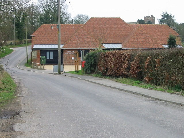 Petham village hall The church tower is just visible above the hall roof